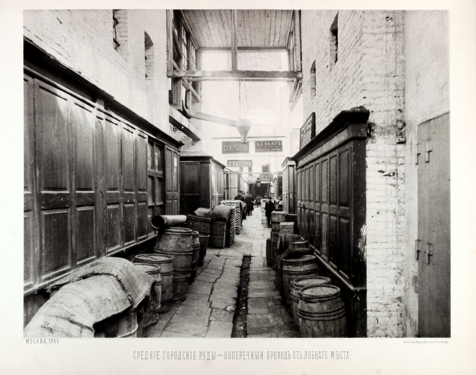 Middle Trade Rows in Kitai-gorod, Moscow. Photographs taken in 1886, prior to the enactment of an ordinance that condemned the whole area to demolition. Middle Trade Rows, built by Joseph Bove in 1810s, were demolished by 1888, and soon replaced by a new and larger shopping building designed by Roman Klein. Plate 32: An aisle from Lobnoe Mesto.